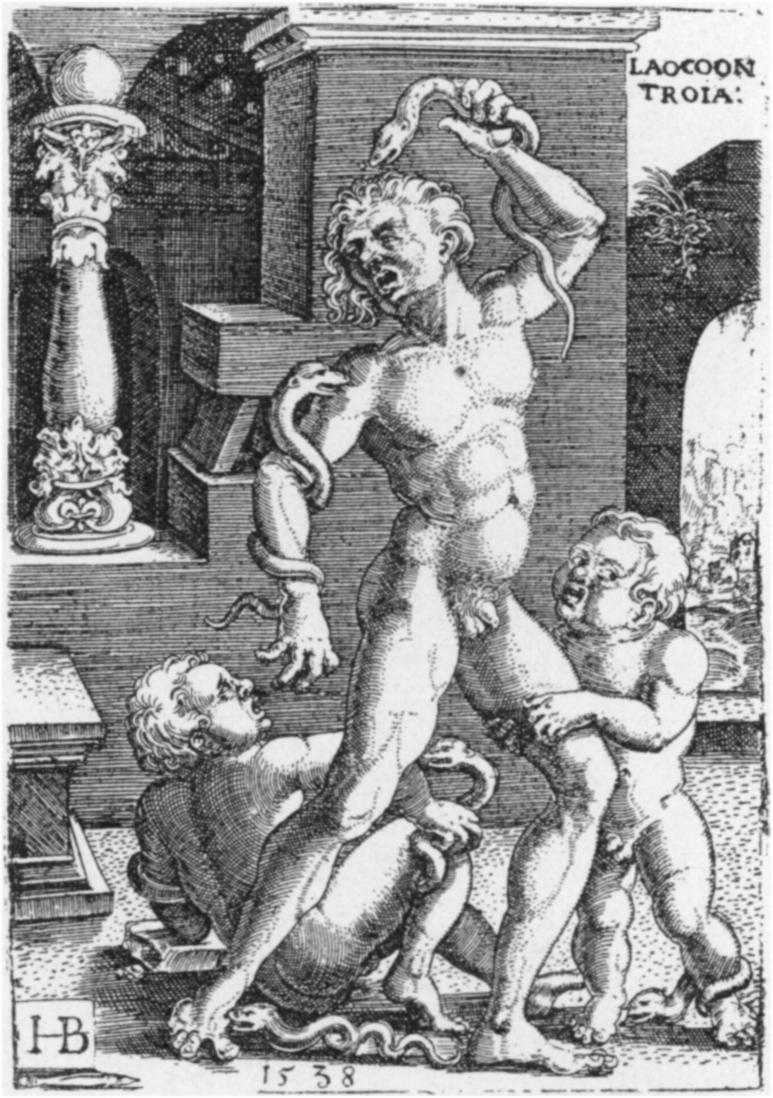 Copper engraving made by Hans Brosamer. Bartsch XV, 15.